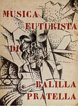 Description: Cover of the 1912 edition of Musica futurista di Balilla Pratella Cover artist: Umberto Boccioni (1882 - 1916) Publisher: Bongiovanni